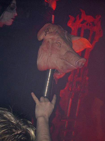 Mayhem live in Glasgow.